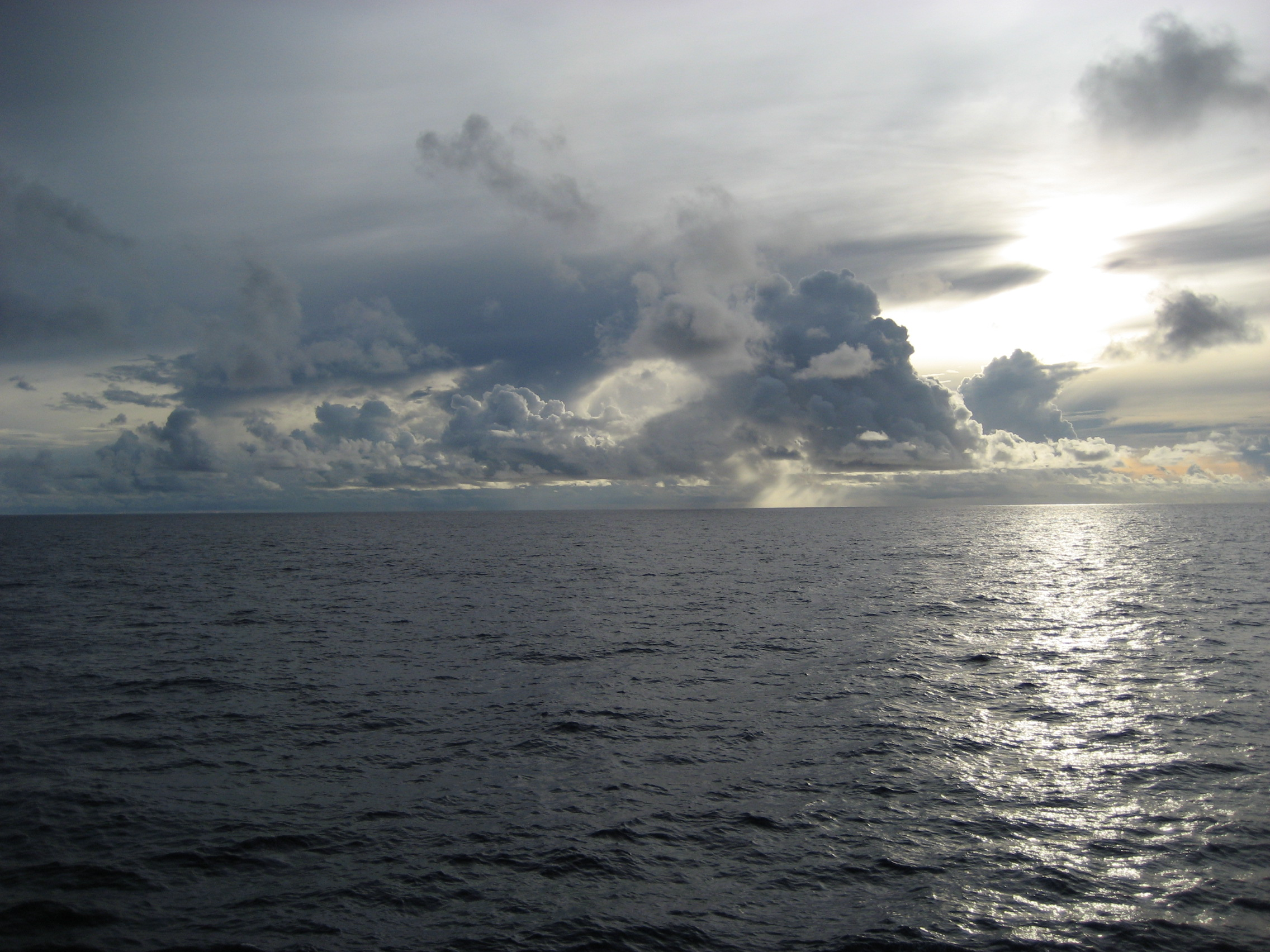 Picture of the south pacific during mid-day, taken from the bridge of a U.S. submarine during transit.